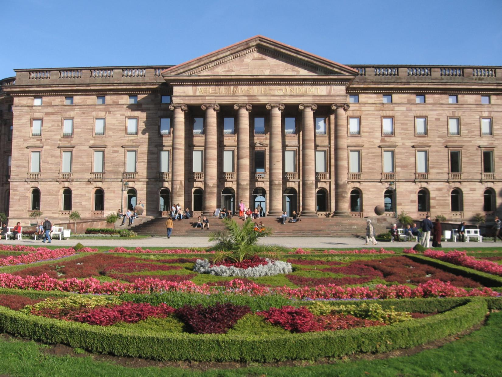 Castle Wilhelmshöhe in Cassel / Germany